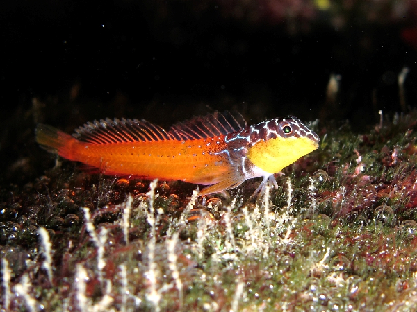 Microlipophrys nigriceps photographed in Hvar, Croatia